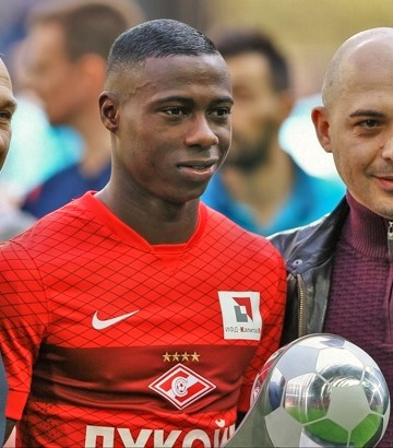 Quincy Promes